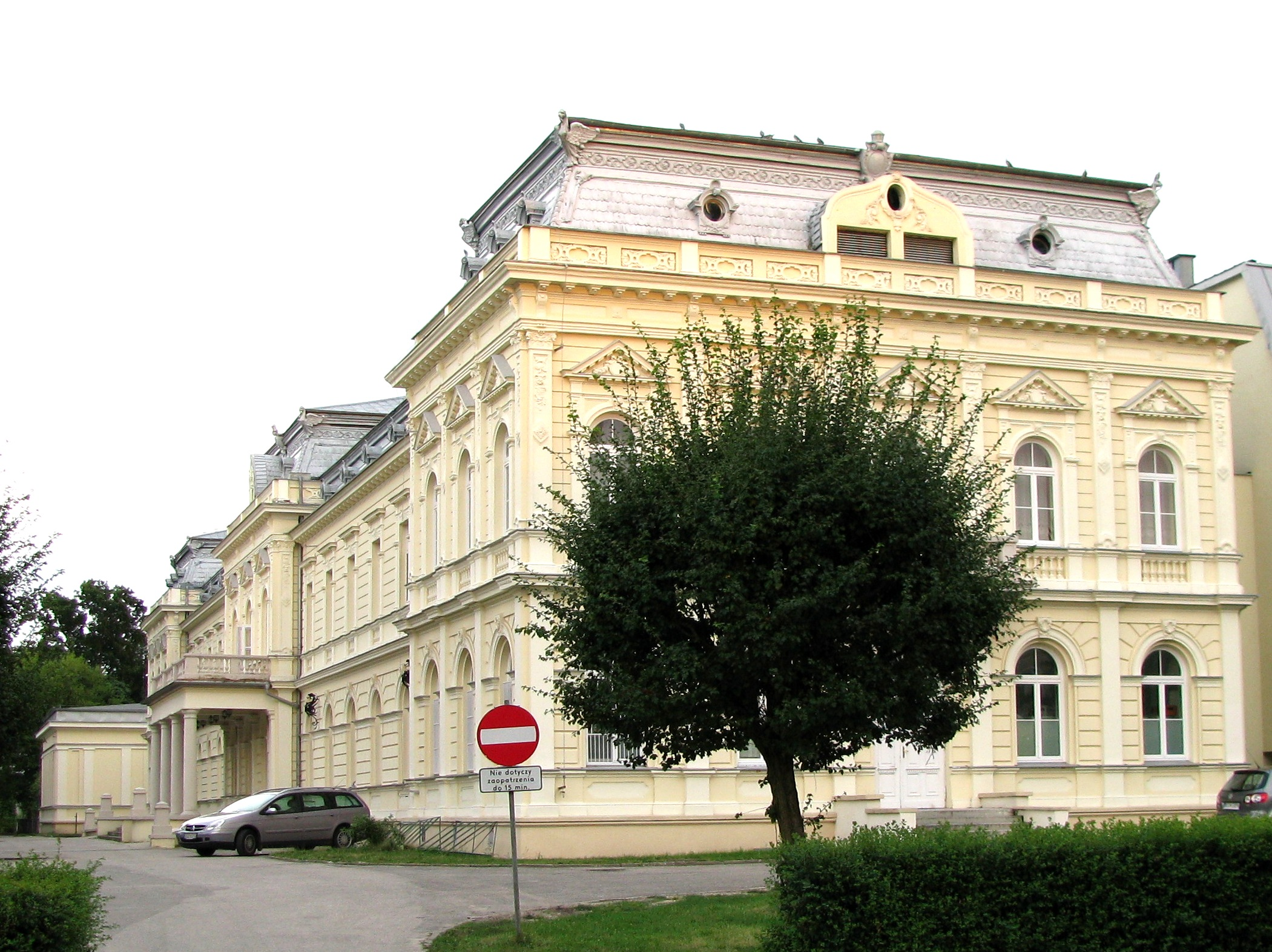 Medical health spa. Ciechocinek in Pomerania (or more accurately Kujawy) is one of Poland's best known spa towns, which grew and prospered due to its iodine-rich salt springs. The Scotch Mist Gallery contains many photographs of historic buildings, monuments and memorials of Poland.